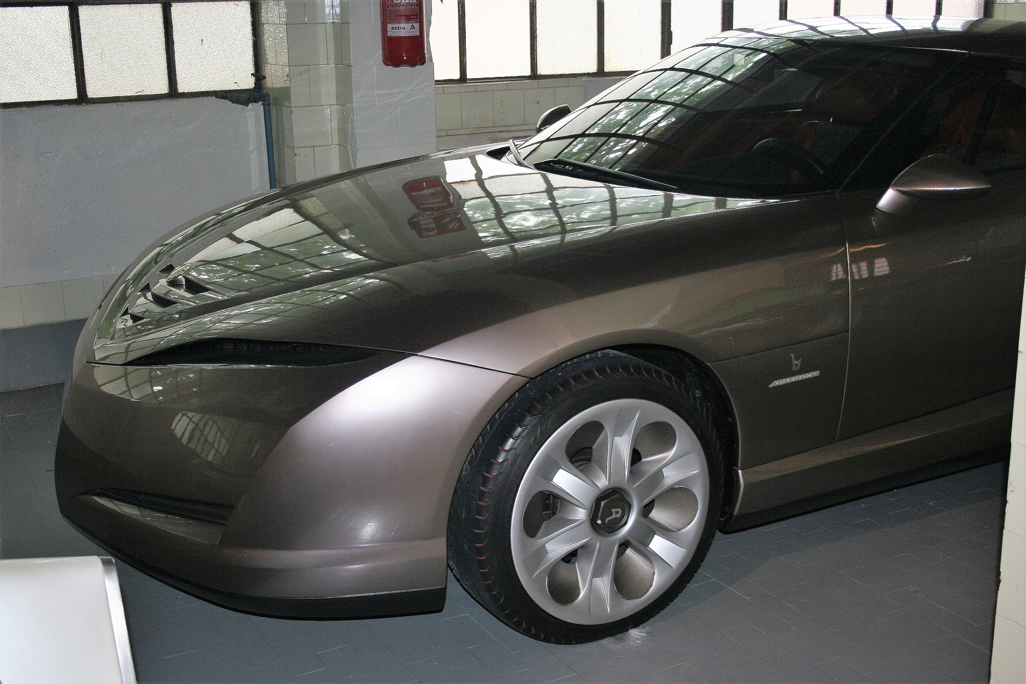 At the Bertone collection of the Automotoclub Storico Italiano (ASI), located in Volandia outside of Milan (by the Malpensa airport and museum areas